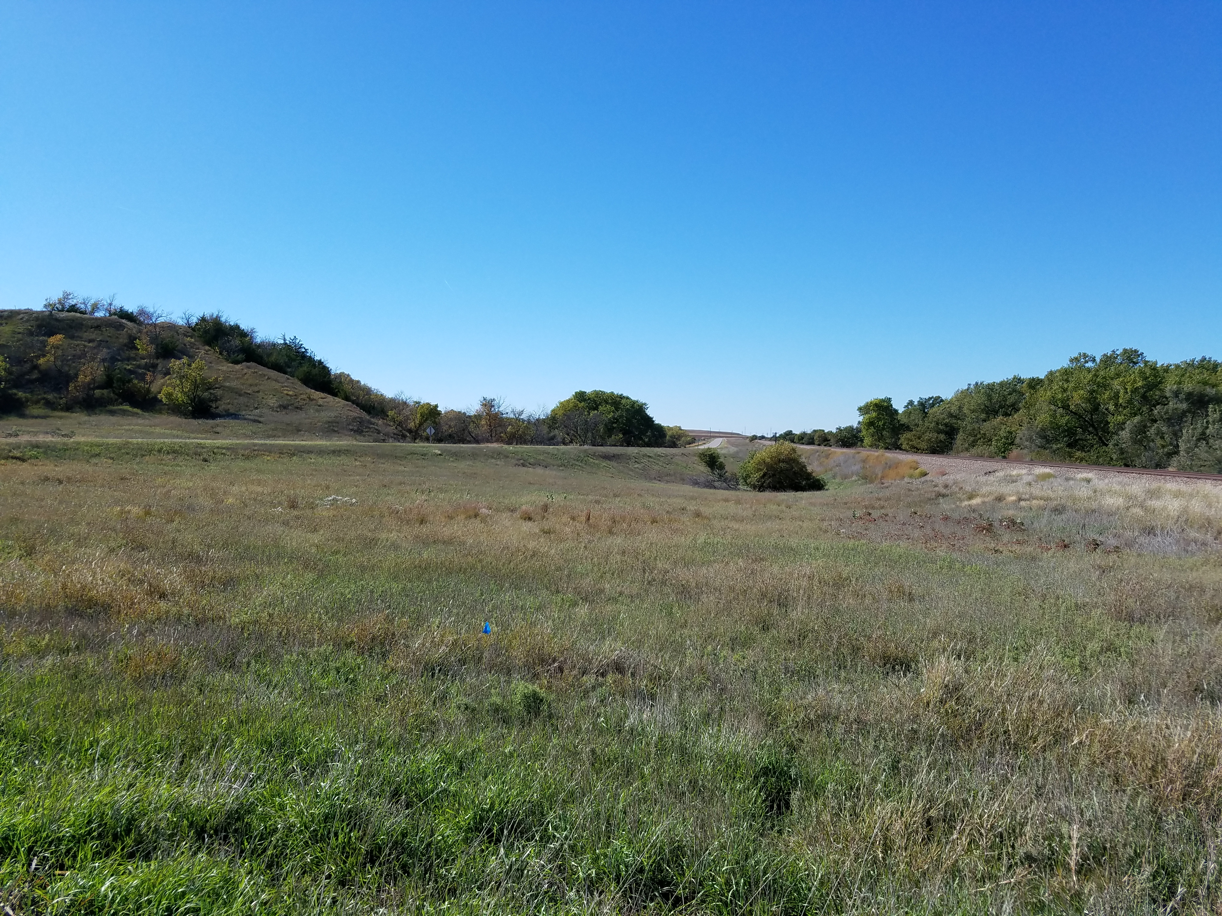 Modern alignment of the highway and railroad at Yocemento - the old railway bed was at the base of the bluff on the left, the old highway was behind the trees on the right.